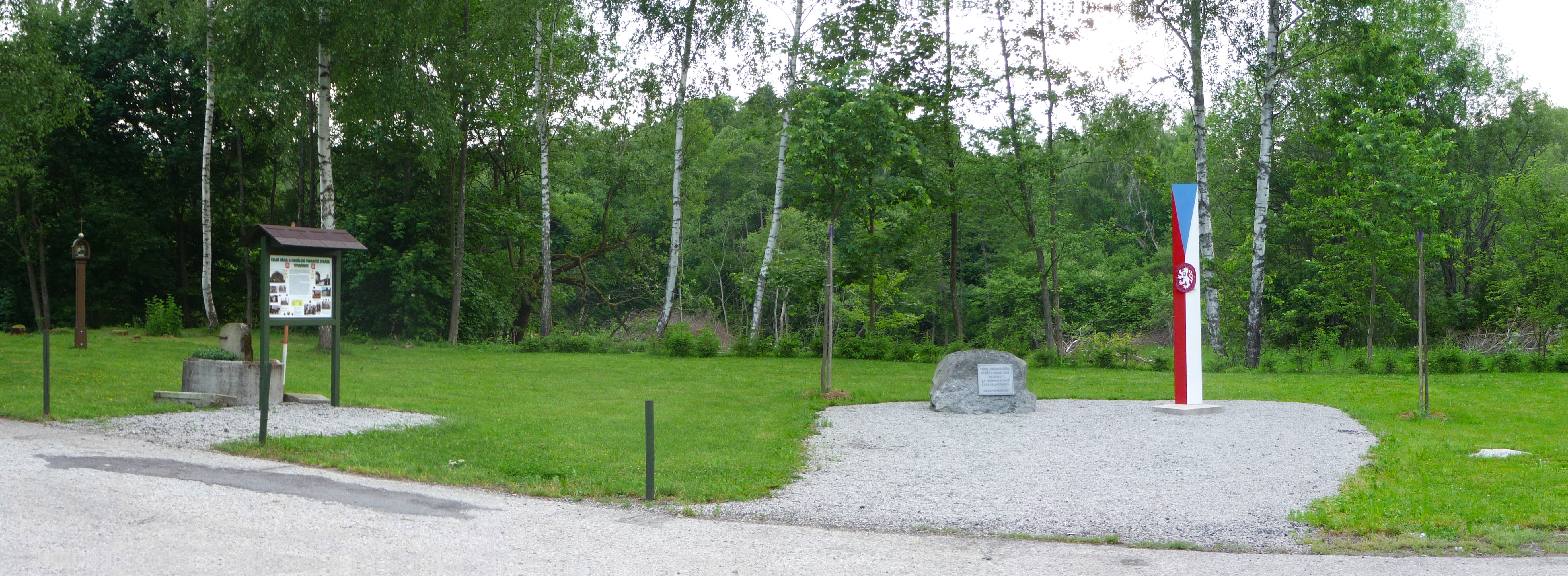 Monument commemorating bordermen who fought for democratic Czechoslovakia in 1938 (South Bohemian Region, Czech Republic).